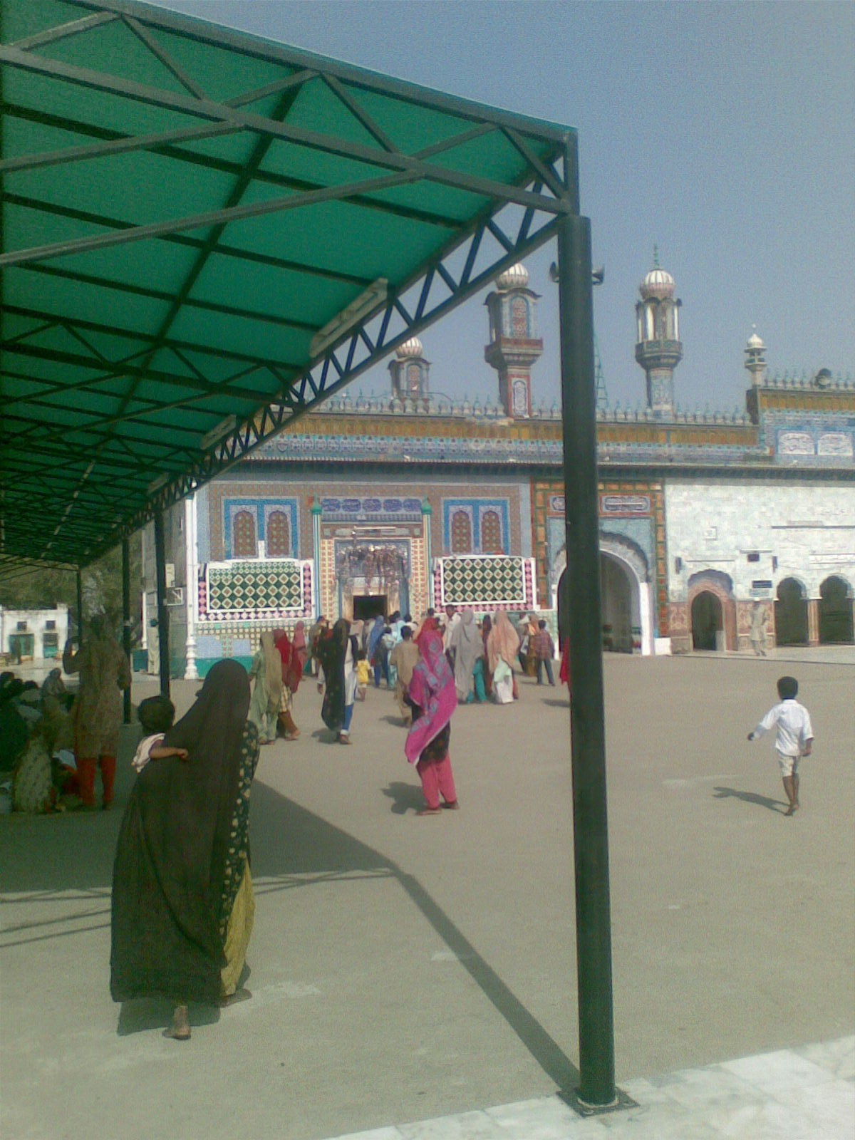 Shrine of Hazrat Sultan Bahu ®